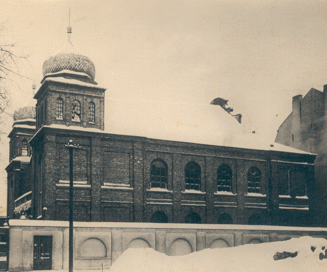 New Synagogue in Kalisz